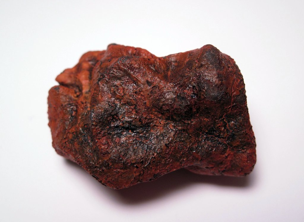 Witnessed fall from 1960 Wiluna District, Western Australia, Australia. 21.78 gram complete individual.